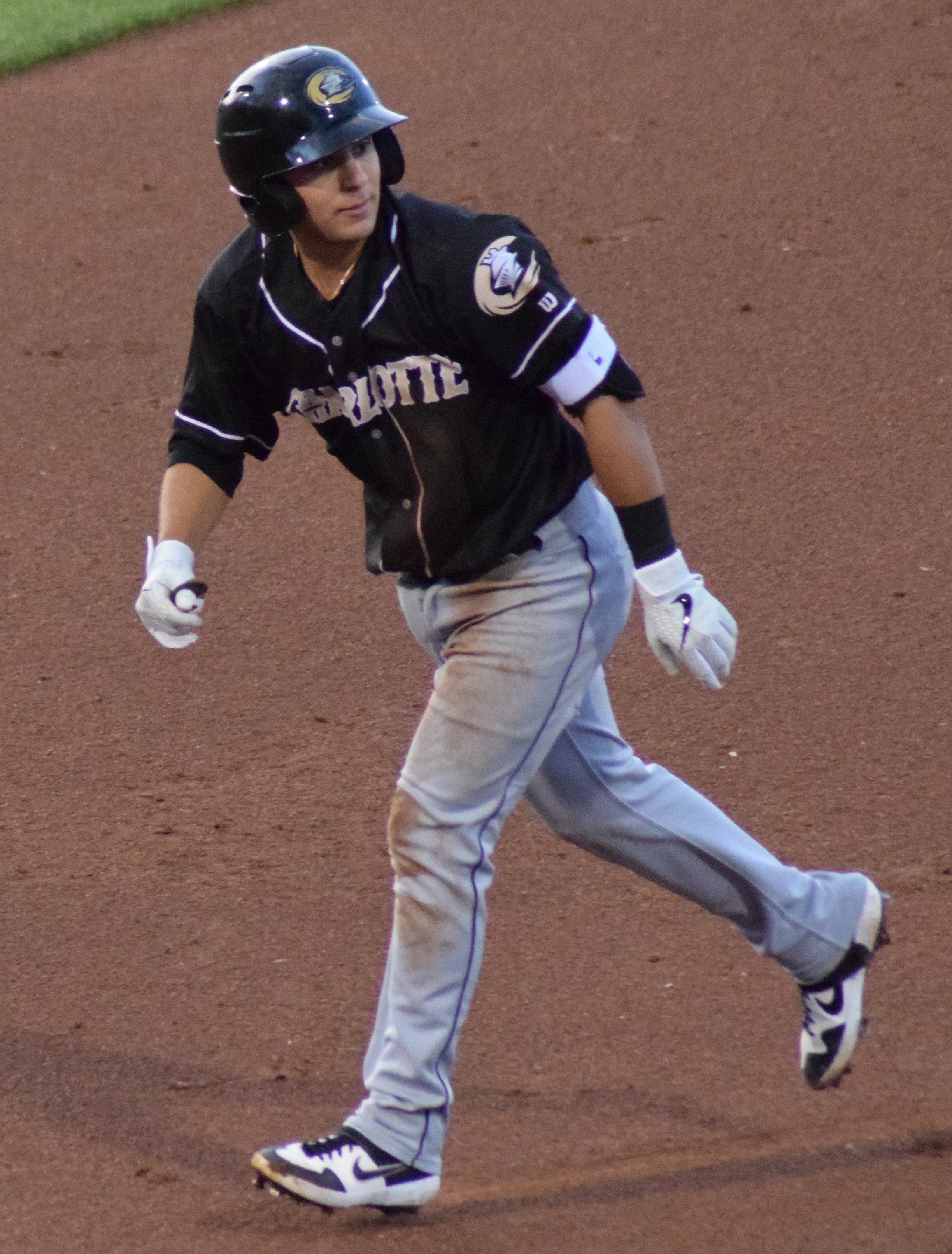 Nick Madrigal of the Charlotte Knights during a 2019 game at Coca-Cola Park in Allentown